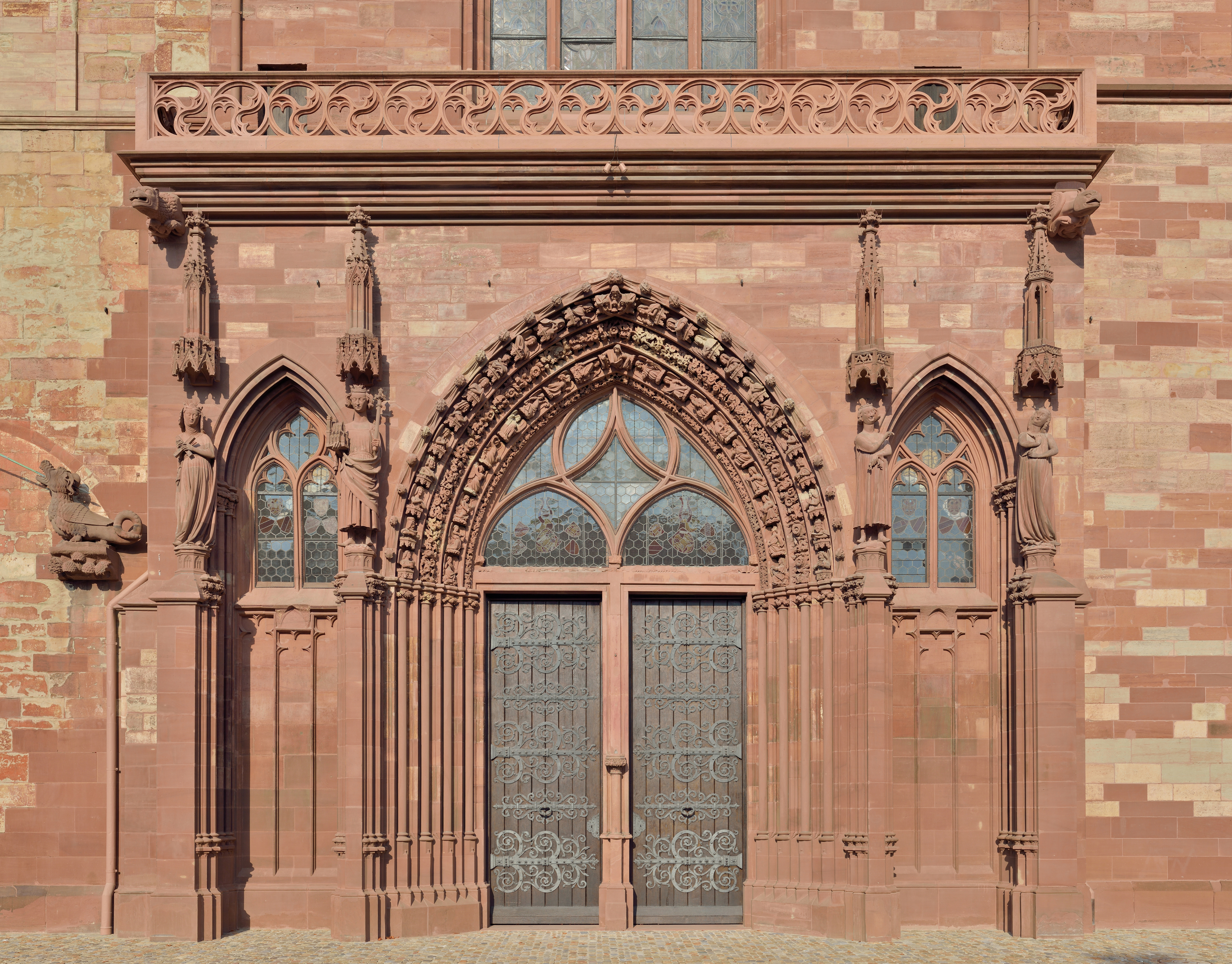 Main portal of Basel Minster